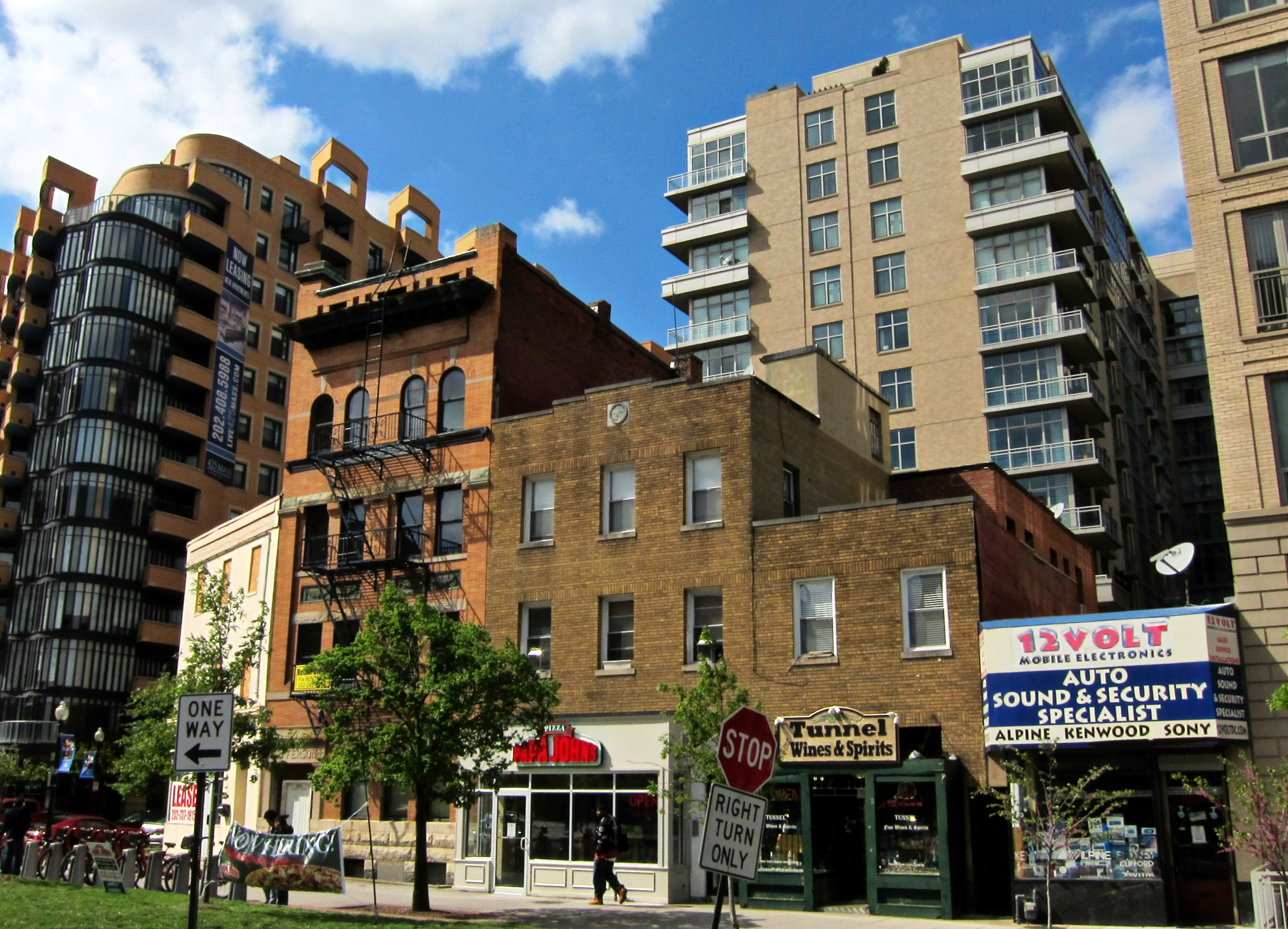 The 300 block of H Street NW in the Mount Vernon Triangle neighborhood of Washington, D.C. In the foreground, from right to left, is 307-317 H Street. The Jefferson Apartment Building (built 1899), listed on the National Register of Historic Places, is the building with the fire escape. The taller buildings, from right to left, are [the barely visible] The Sonata (built 2006), Madrigal Lofts (built 2007) and 425 Mass Apartments (built 2008).